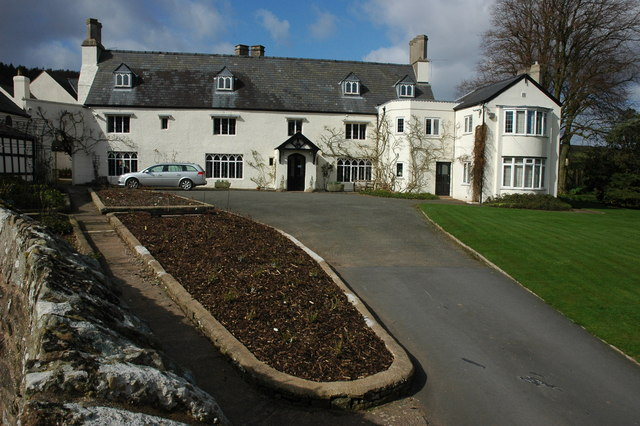 House at Ganarew Attractive house next to Ganarew church. Viewed here from the churchyard.